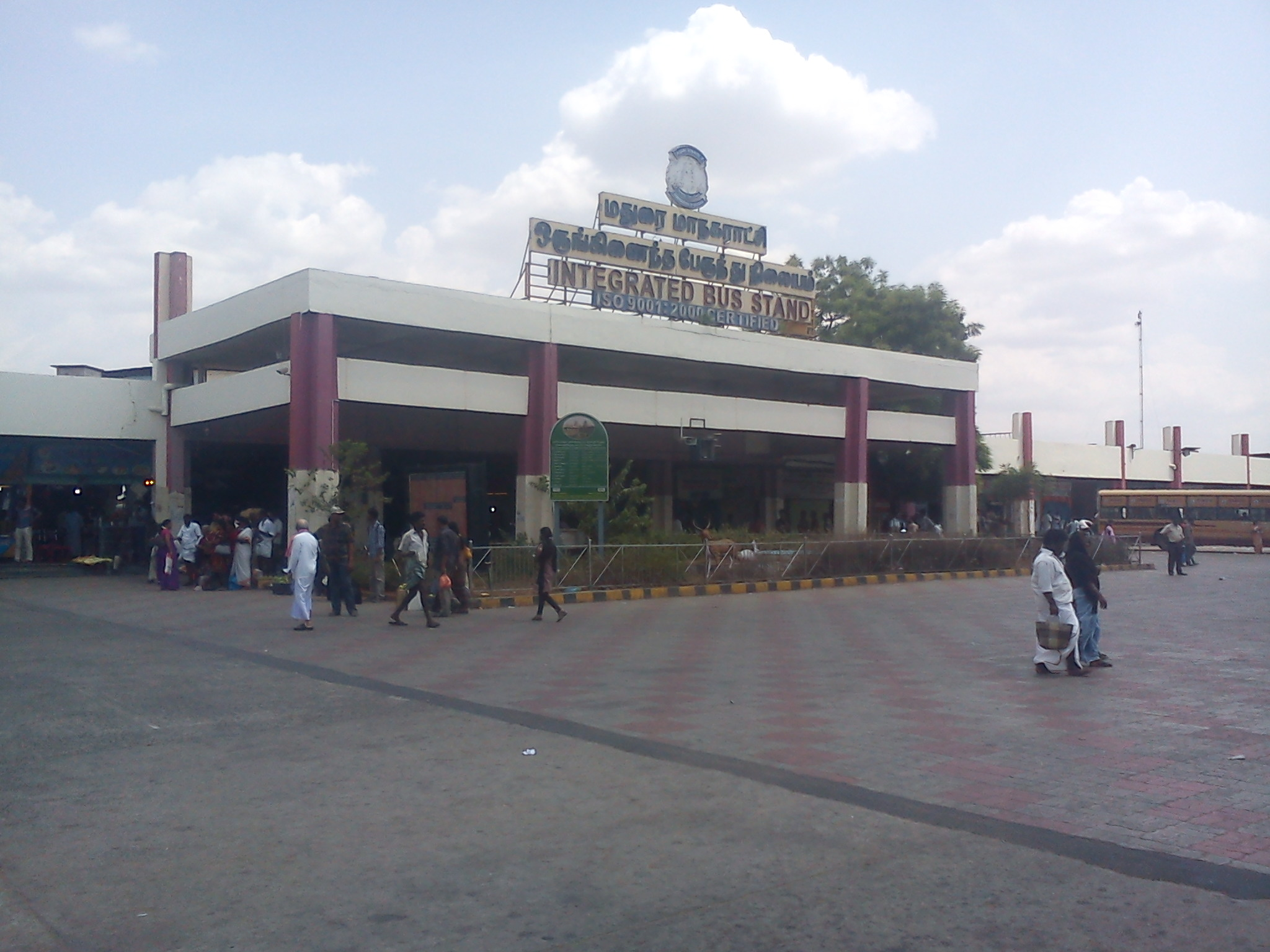 This is the entrance view of M.G.R Bus Stand in Madurai